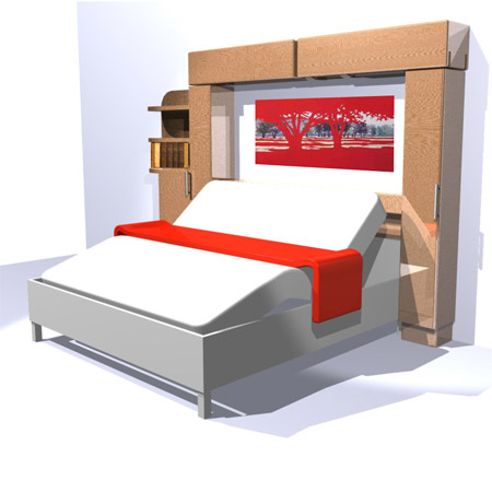 Patient lift for king size bed in homecare. The lift is included in the bed side cabinet. By the Norwegian producer Integracp